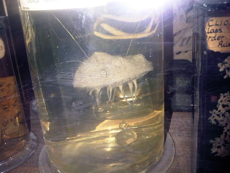 Thenea muricata in Grant Museum of Zoology, London, England.